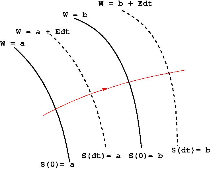 Fronts of Hamiilton's principal function moving in configuration space